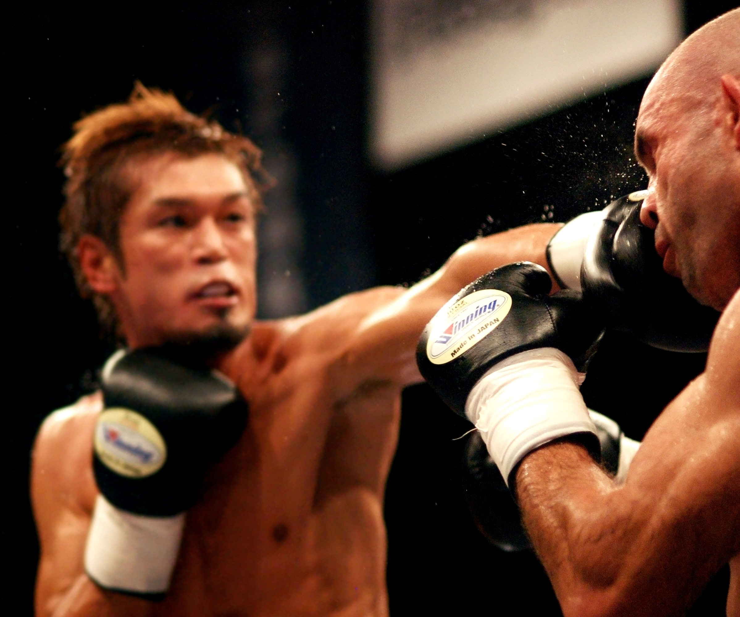 Nobuhiro Ishida (on the left) vs. Rigoberto Álvarez at the Mesón de los Deportes in Tepic, Nayarit, Mexico in October 9, 2010.